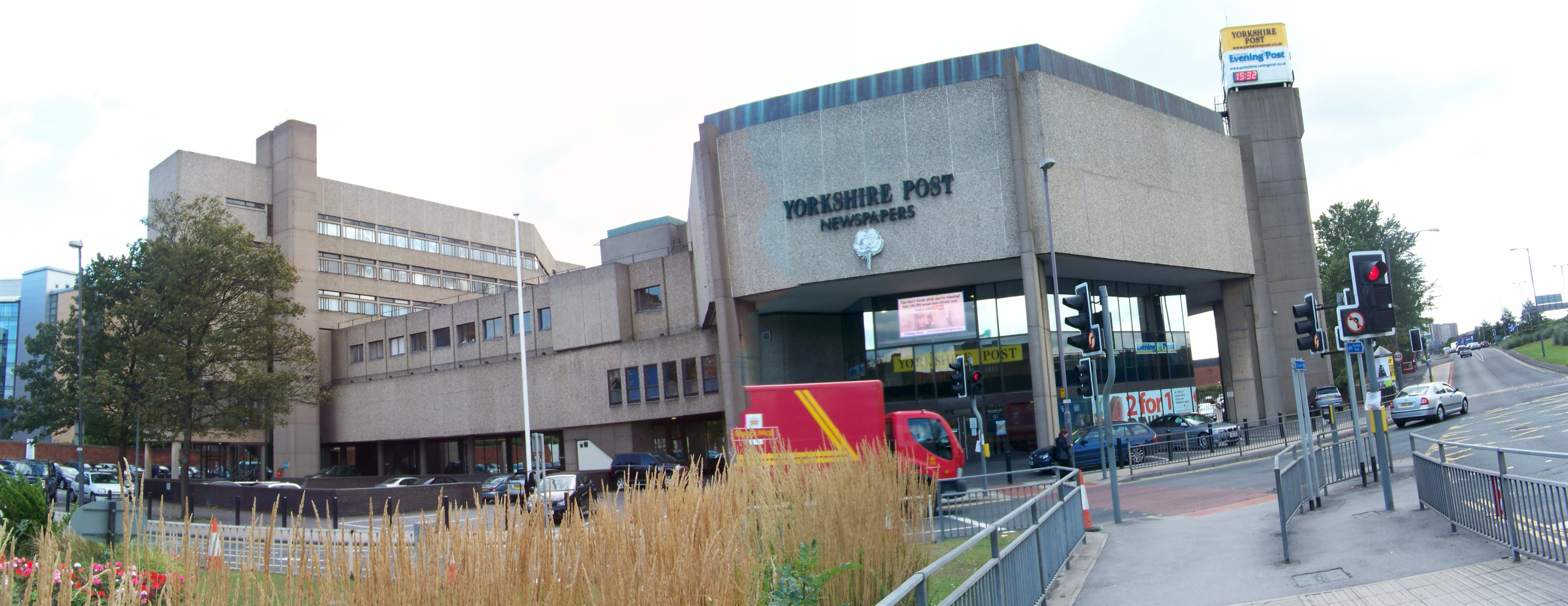 The Yorkshire Post/Yorkshire Evening Post buildings in Leeds, West Yorkshire. Taken on the afternoon of Tuesday 15th September 2009.